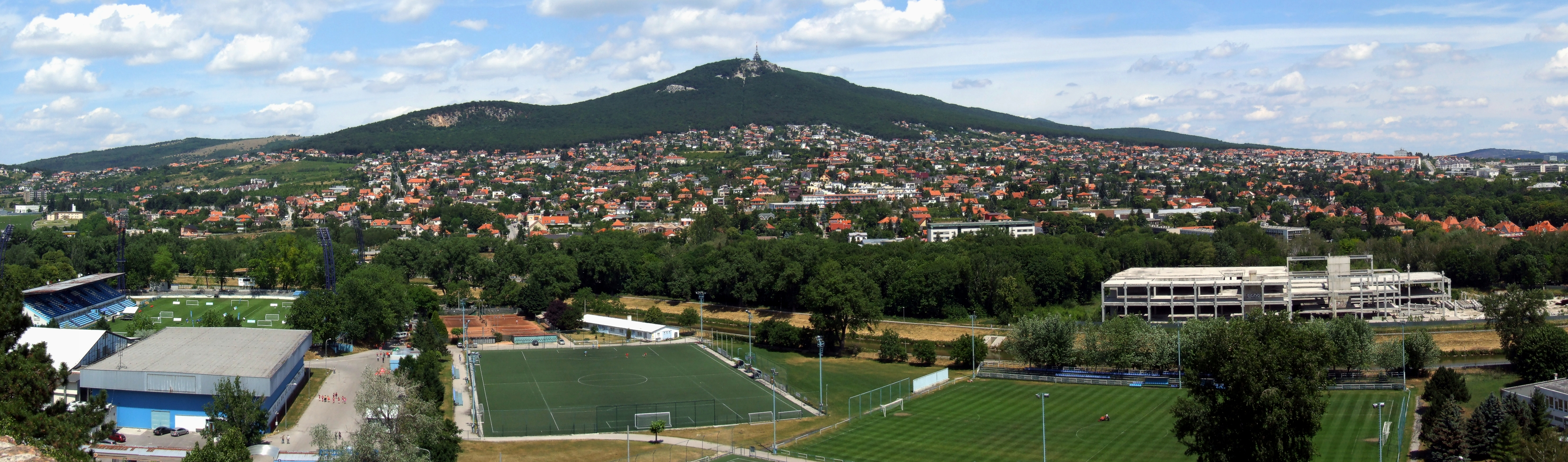 Mount Zobor in Nitra, Slovakia - view from castle